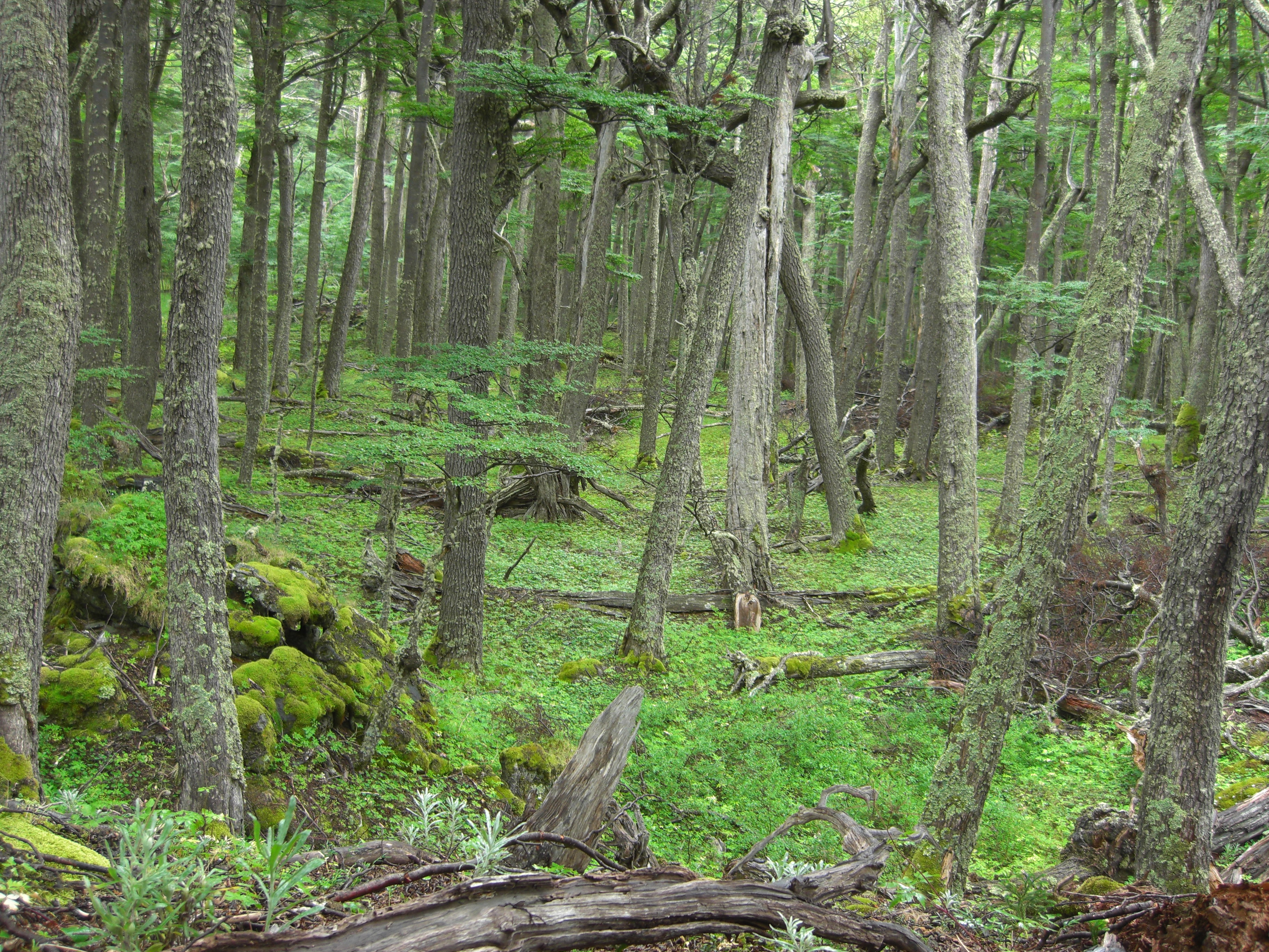 The lenga (Nothofagus obliqua) forest between Campamiento Los Perros and Refugio Dickson is easily the finest continuous stretch of such a forest I've yet seen in Chile. The heavy recent rains resulted in fabulous greenery and loads of spring mushrooms.